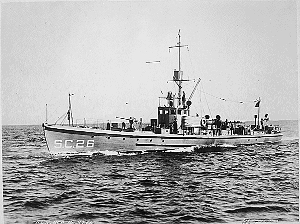 USS _SC-26_ at sea